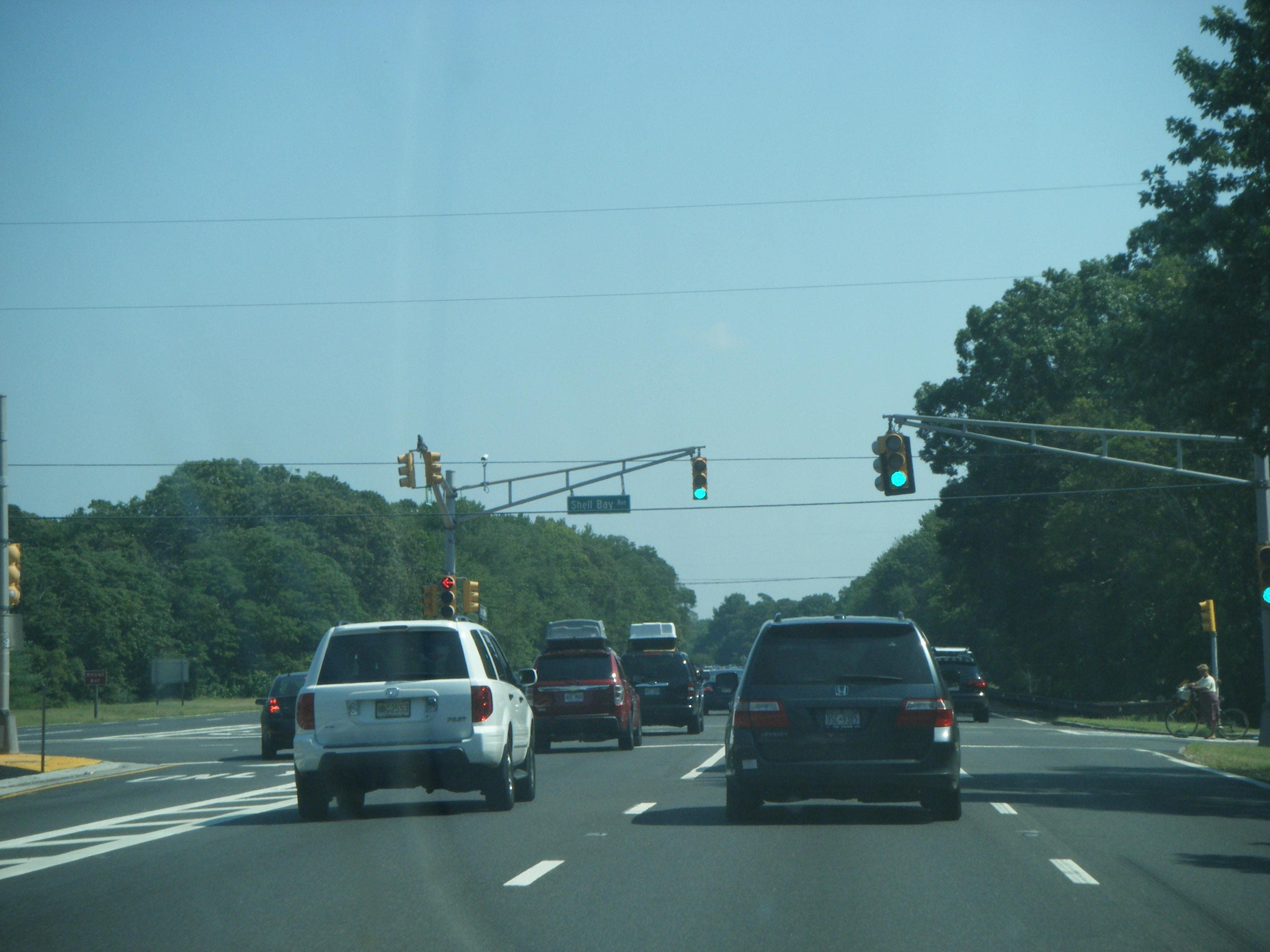 Northbound Garden State Parkway at the intersection with Shellbay Avenue (exit 9) in Cape May Court House, New Jersey